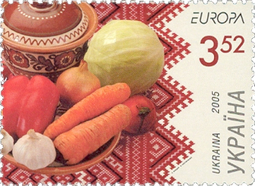 Ingredients for Ukrainian borscht